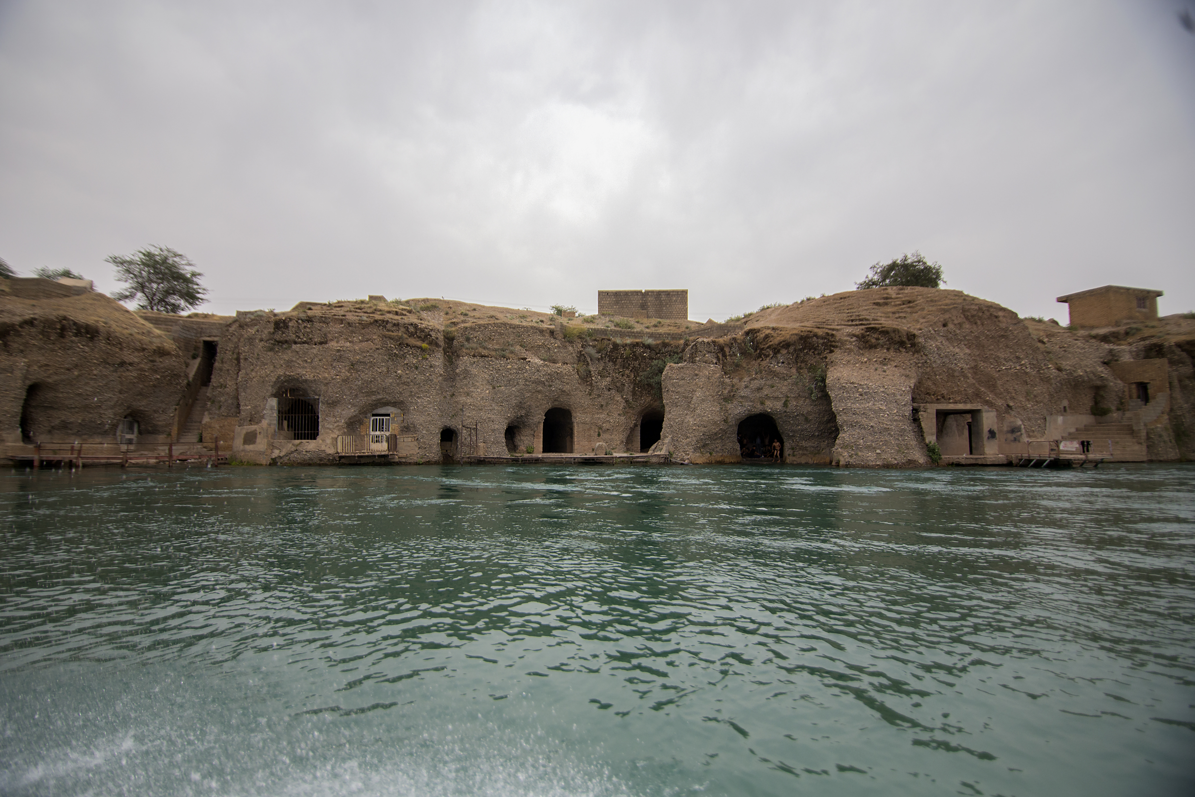 The Dez River (Persian: دز), the ancient Coprates (Greek: Κοπράτης or Κοπράτας), is a tributary of the Karun River and is 400 km long. It is the site of the Dez Dam.